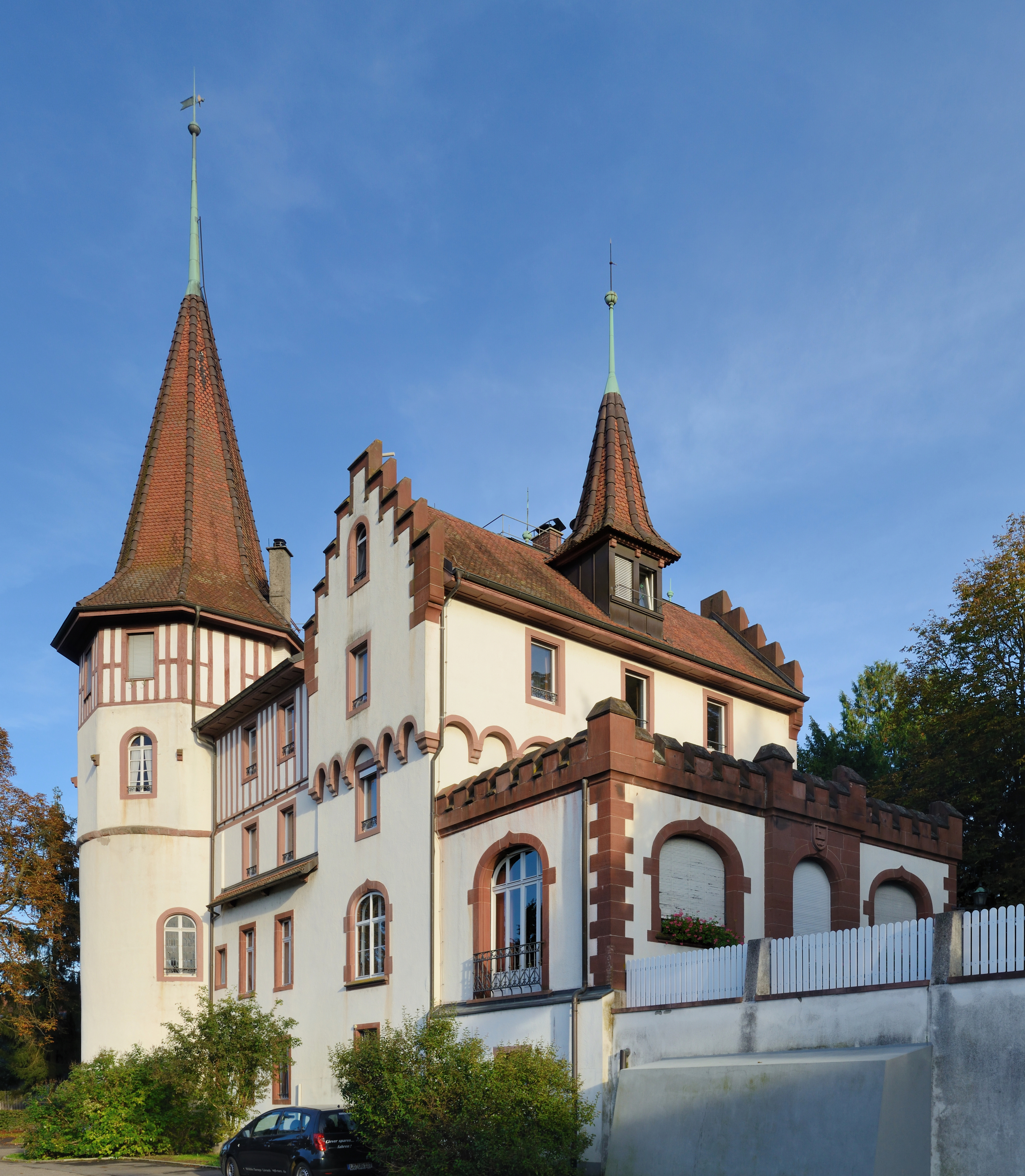 Lörrach-Brombach: Castle Brombach